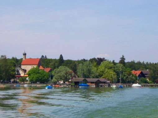 Schondorf am Ammersee (Bavaria, Germany) with roman church of St. Jakobus (lake side view)